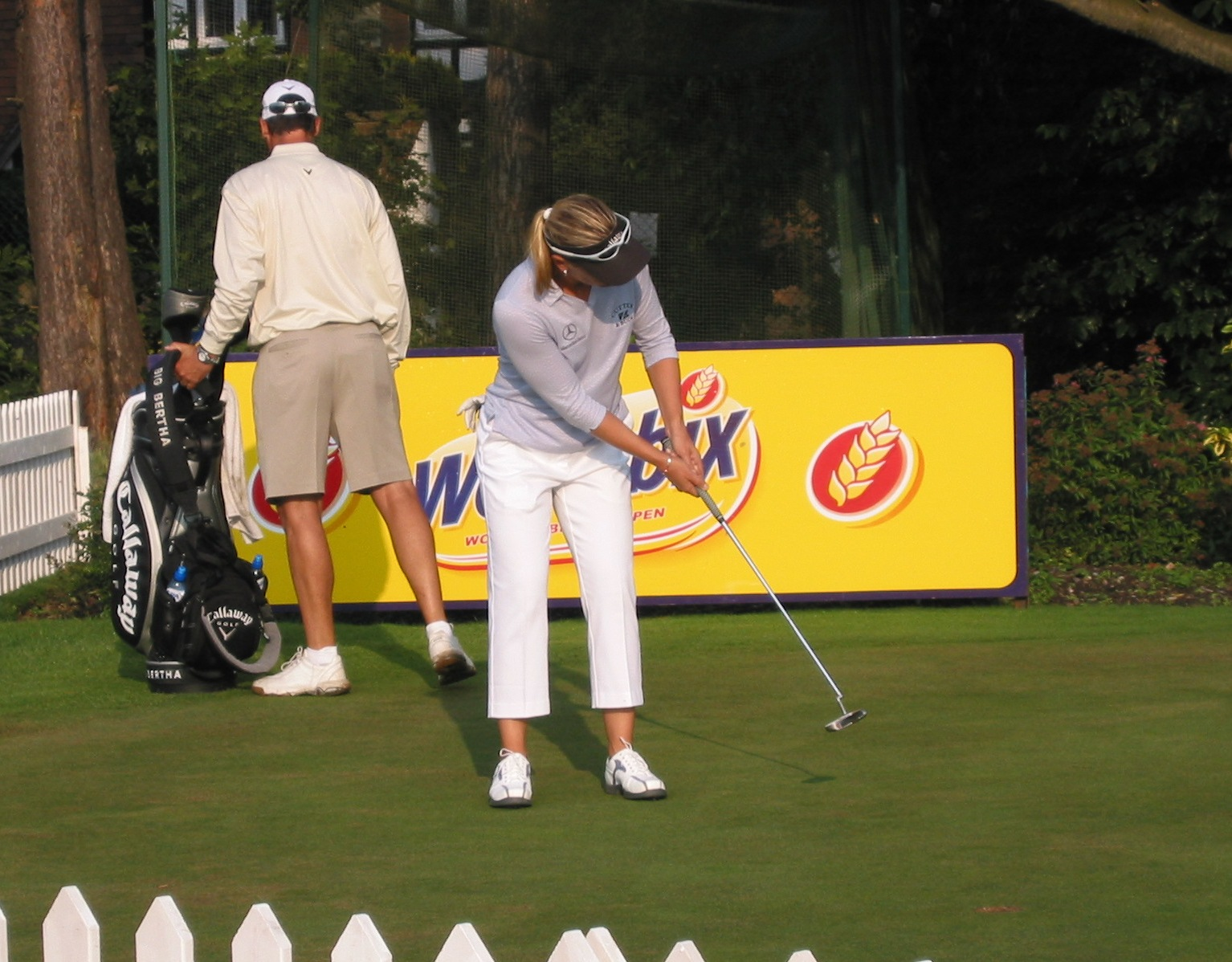 Annika Sorenstam on the practice putting green on Day 1 of the Women's British Open 2004 at Sunningdale Golf Club